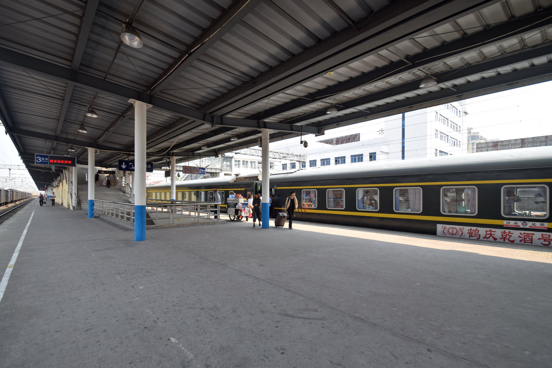 K492 train was stopping at platform 2 of Xinyu Railway Station.